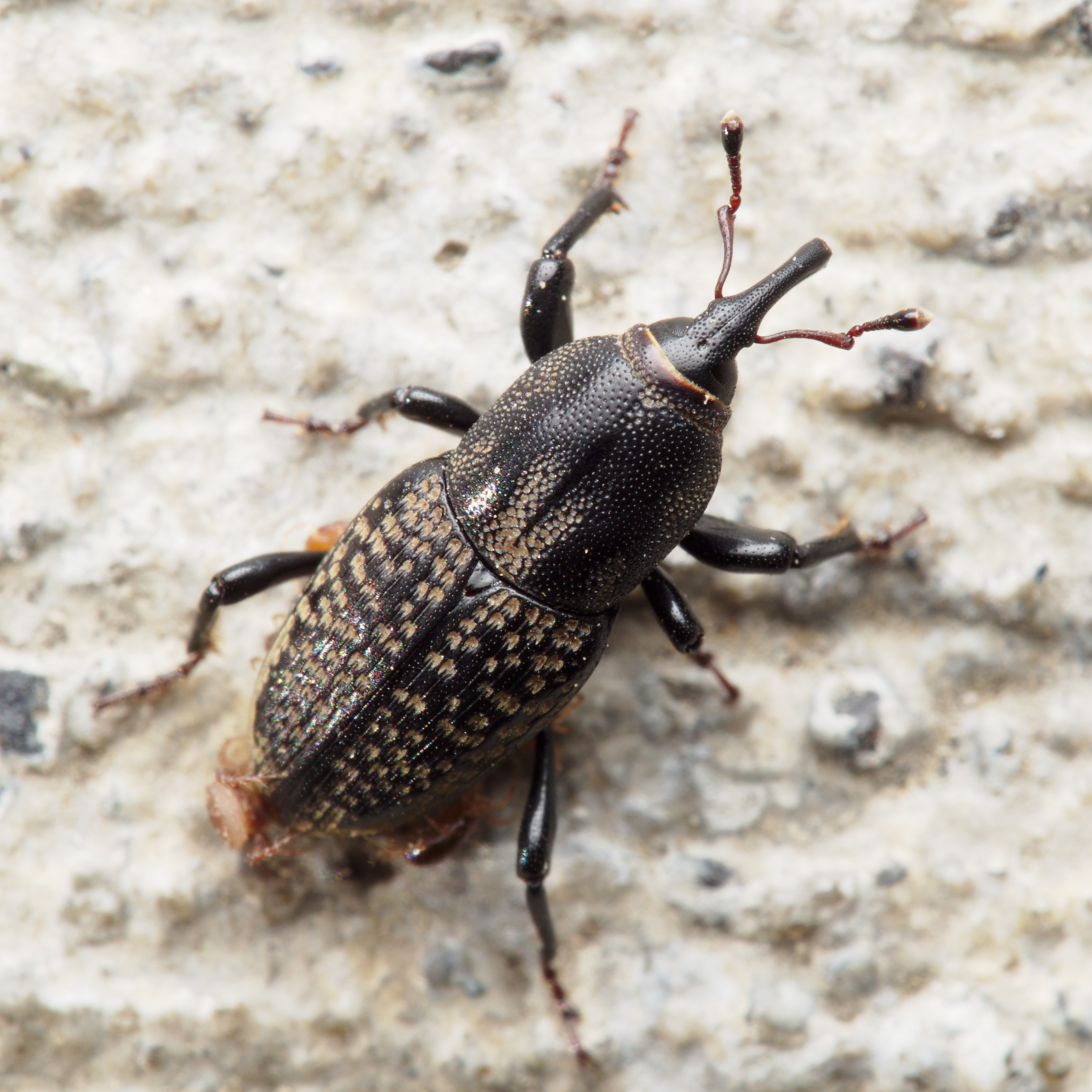 Sphenophorus cicatristriatus, the Rocky Mountain Billbug, playing host to several mites in Richland, Washington